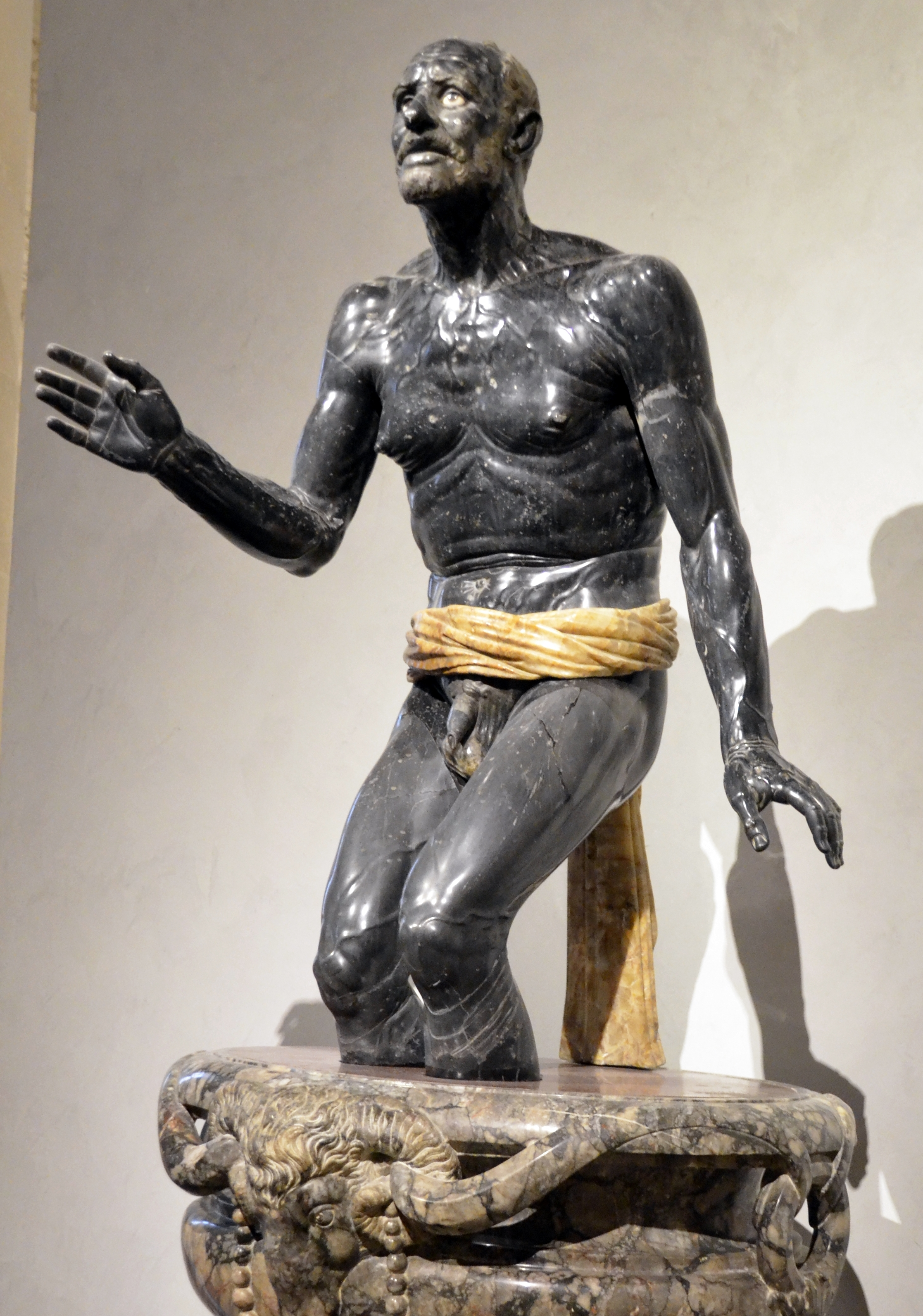 Old Fisherman Vatican-Louvre, also known as the “Dying Seneca”. Statue: black marble and alabaster, (modern) basin: purple breccia, Roman copy of the 2nd century after a Hellenistic original. Found in Rome.